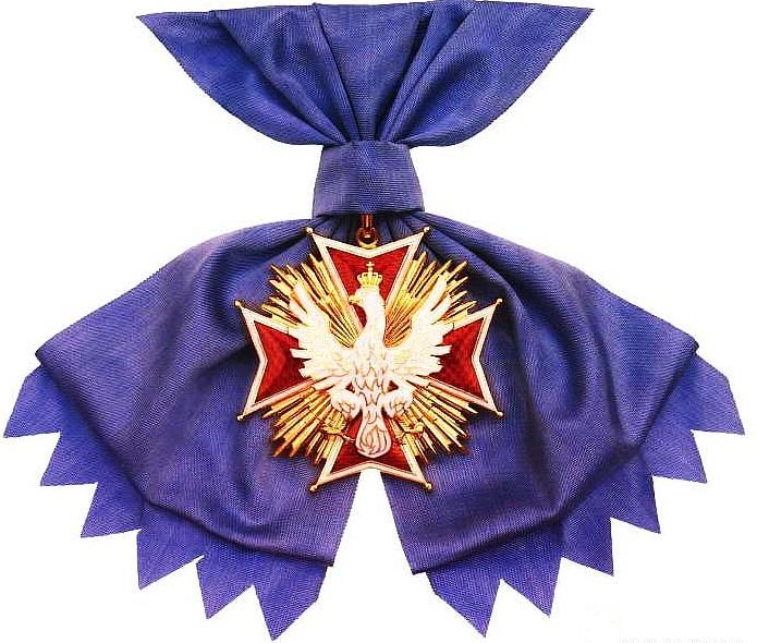 Order of White Eagle, Poland. The Highest Civilian Order in Poland. Official Pattern